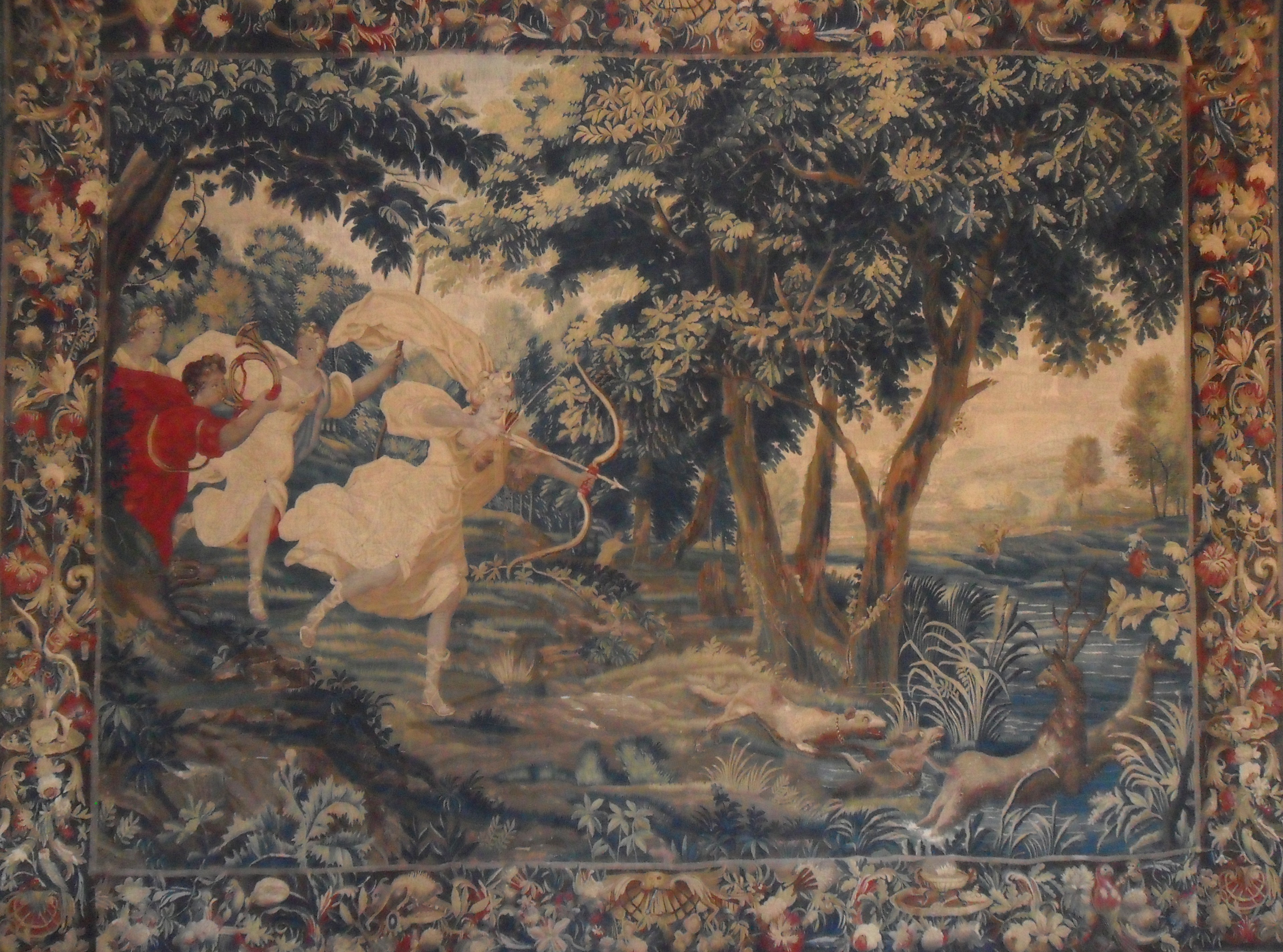 A 17th century tapestry depicting Diana hunting with greyhounds and bow and arrow, displayed at the Château de Villandry